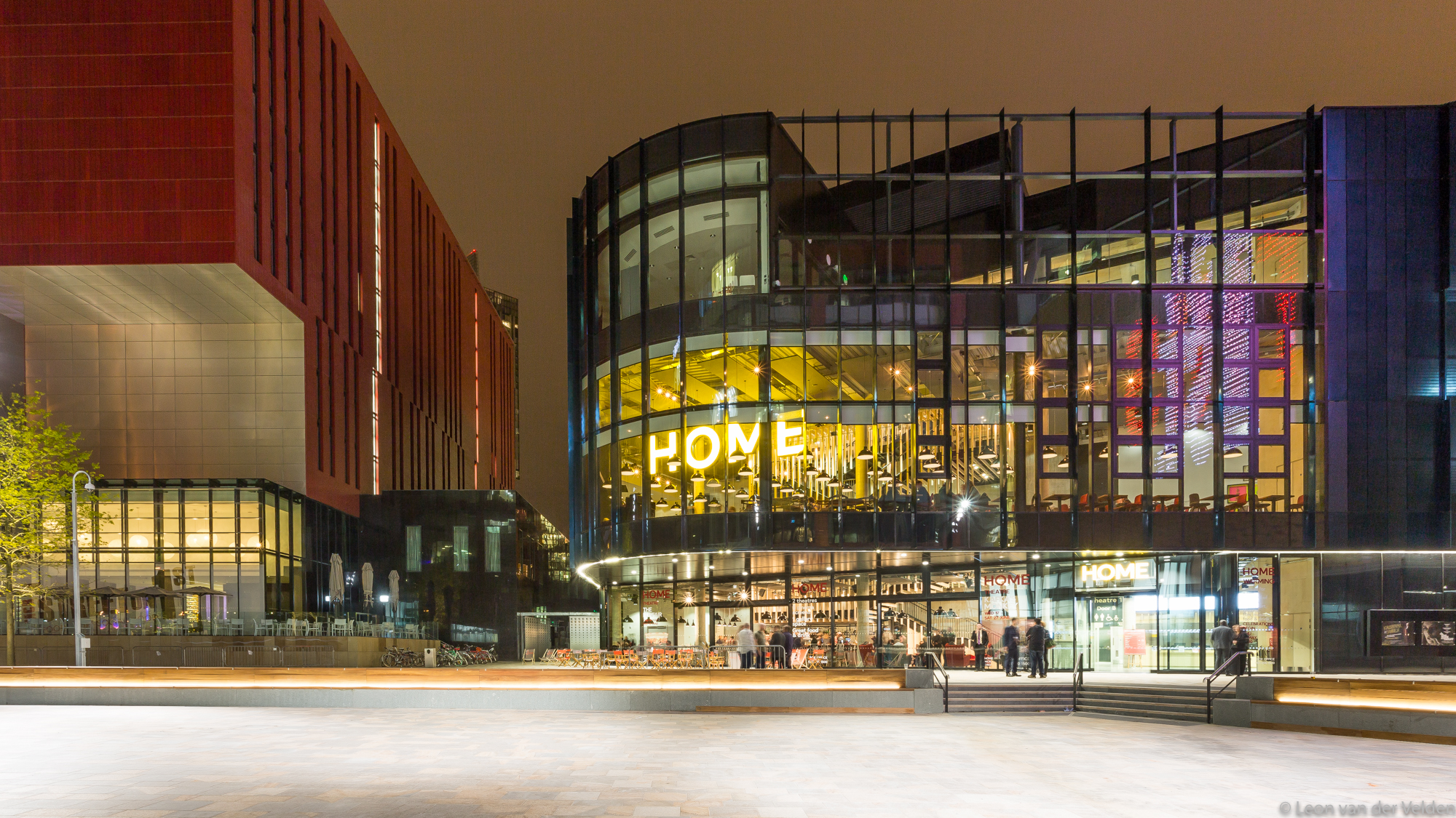 HOME centre for international contemporary art, theatre and film.